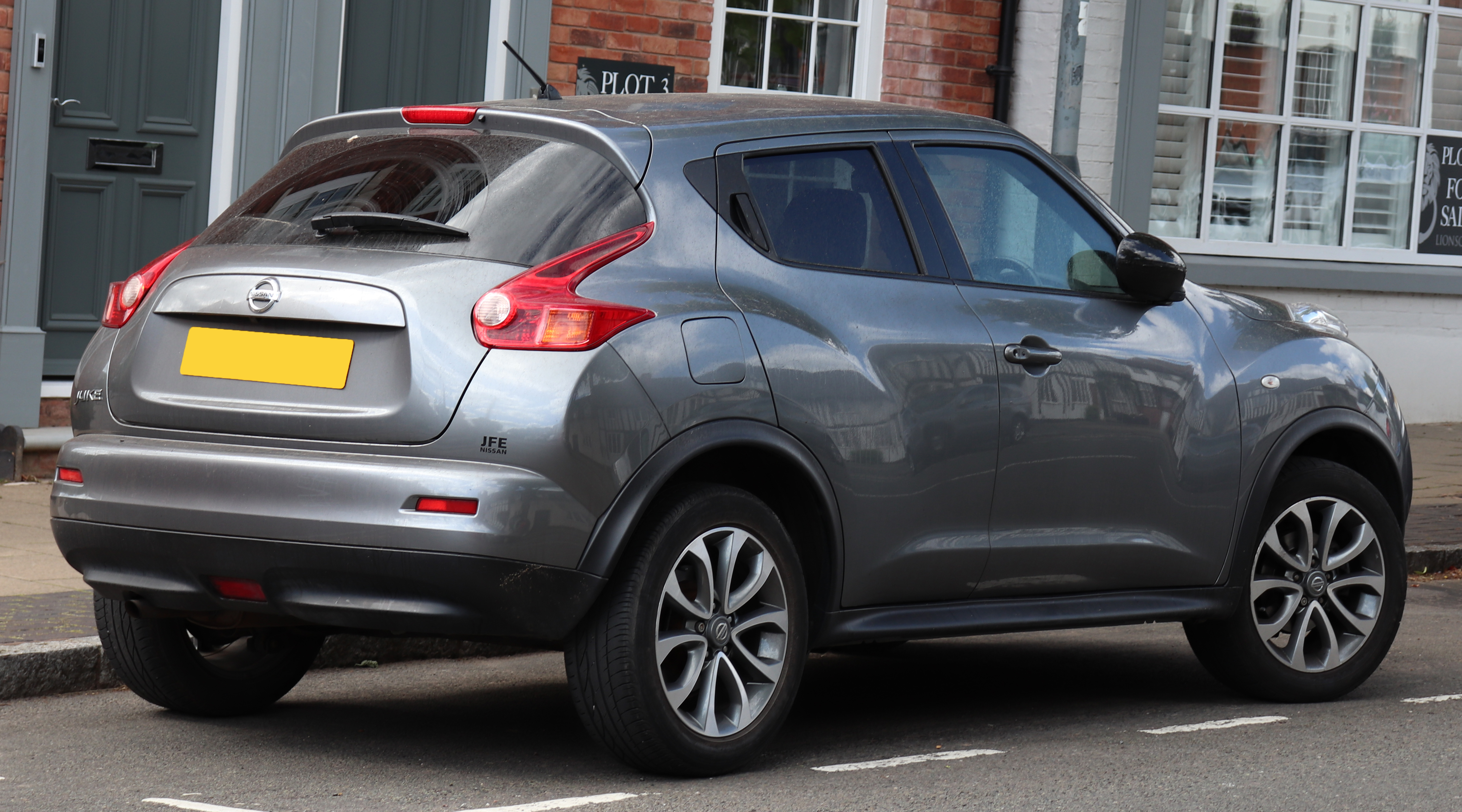 2013 Nissan Juke Tekna 1.6 Rear Taken in Warwick